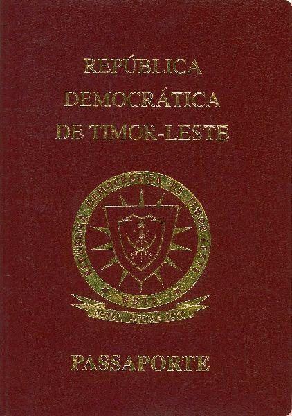 Front cover of an East Timorese passport